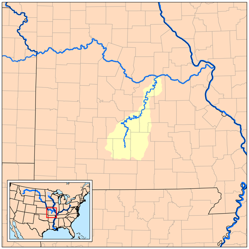 Map of the Gasconade River watershed in Missouri.